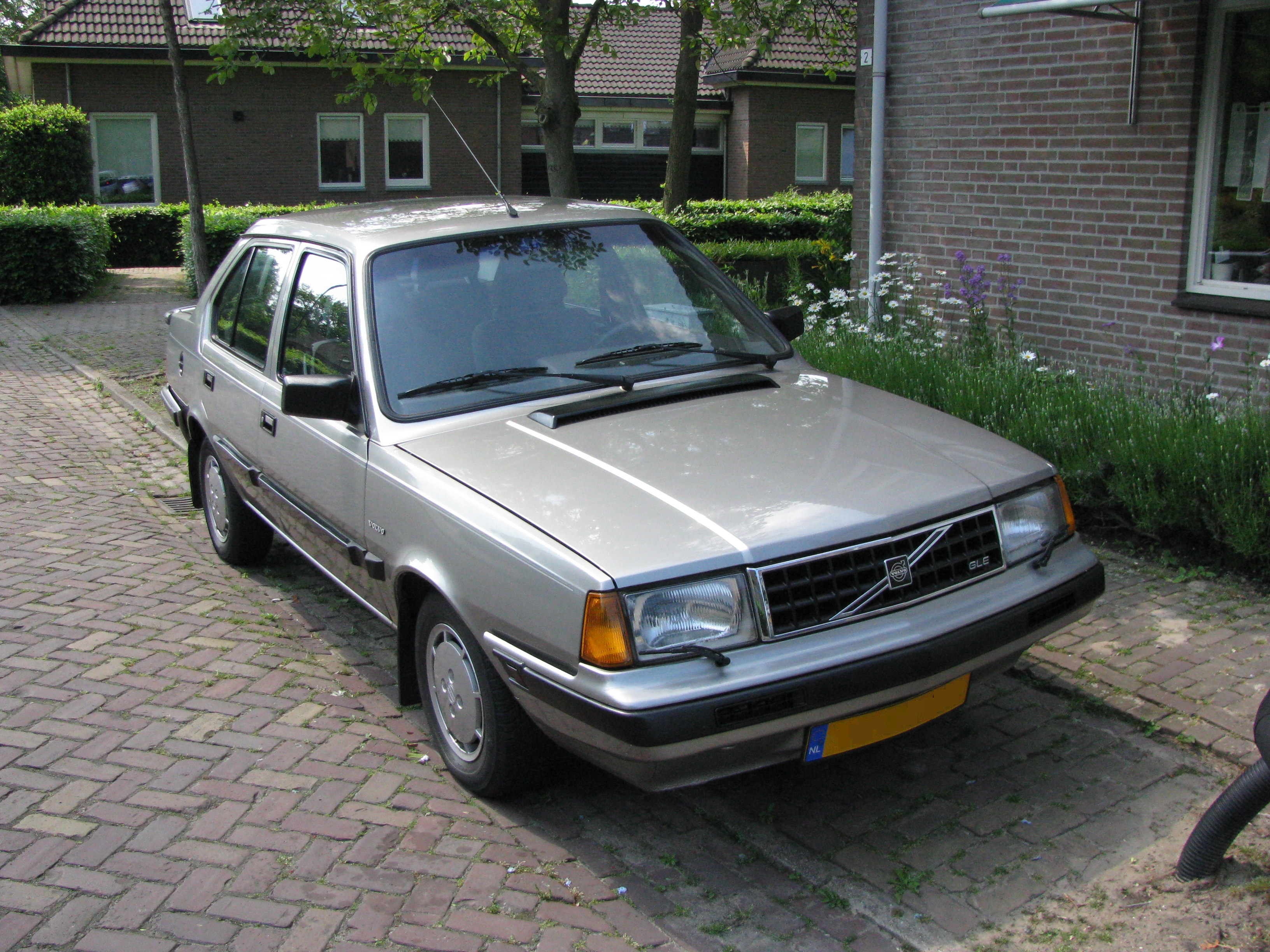 Volvo 340 GLE Millionaire. This is the Dutch version from the special model from 1988. It's produced for the occasion of the one-millionth car of the Volvo 300-series.